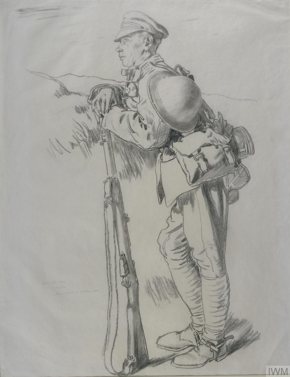 South Irish Horse. a Dubliner resting on his way to Arras Front image: A full-length study of a soldier in battle kit leaning against a trench wall. He wears a cloth cap on his head, and his helmet hangs from his shoulder. He rests his hands on the barrel of his rifel which stands in front of him.